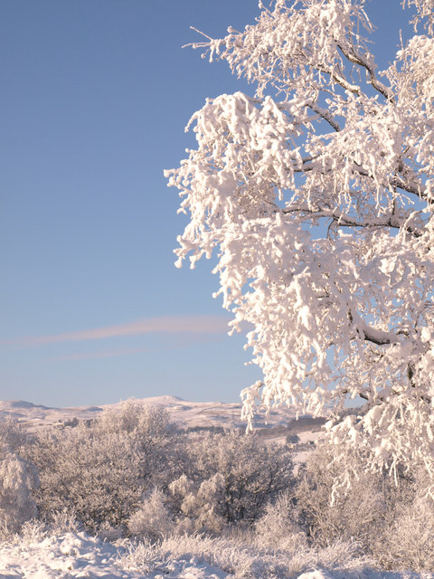 Snow Laden Tree Looking towards Misty Law, Muirshiel Regional Country Park from Mid Risk Farm.